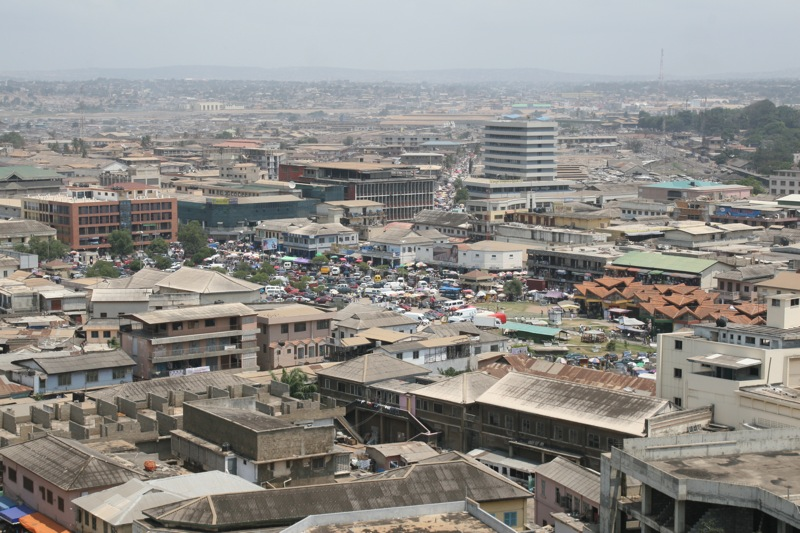 Panorama of central Accra